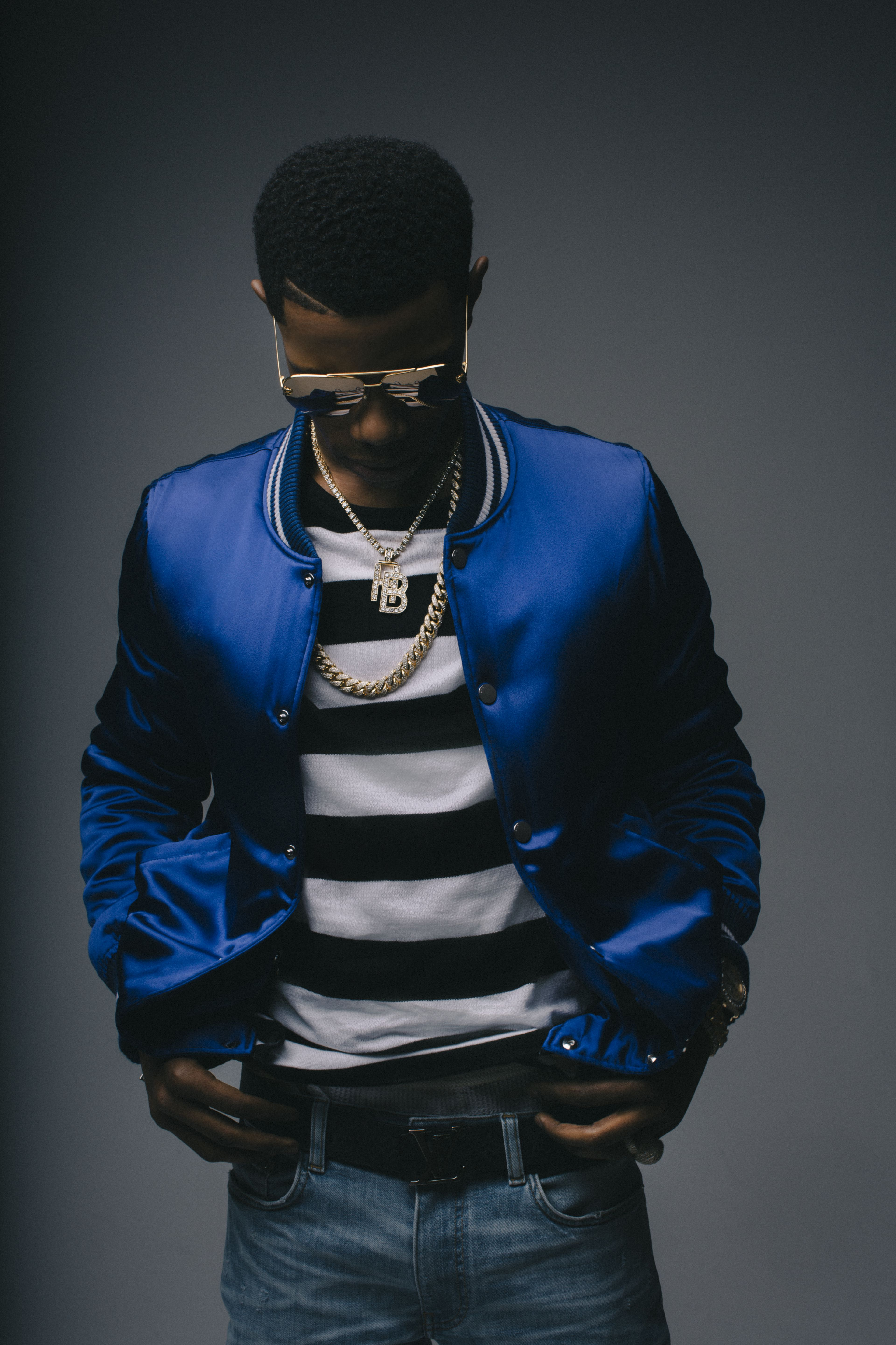 A BOOGIE wit da Hoodie poses